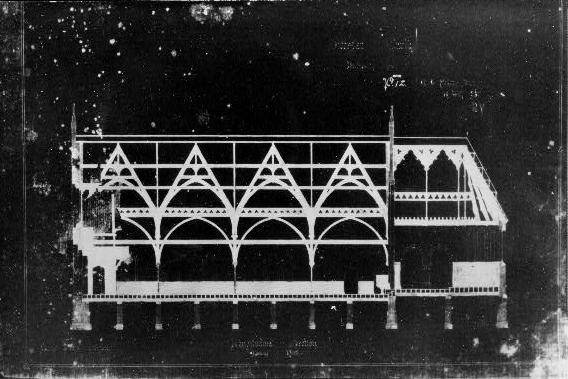 Original blueprint of the Trinity Episcopal Cathedral, located in Davenport, Iowa, United States. Built in 1873, it is listed on the National Register of Historic Places. The image was created by Jack Boucher from the original blueprints made by the architect Edward Tuckerman Potter, which are from the collection located at Trinity Cathedral.